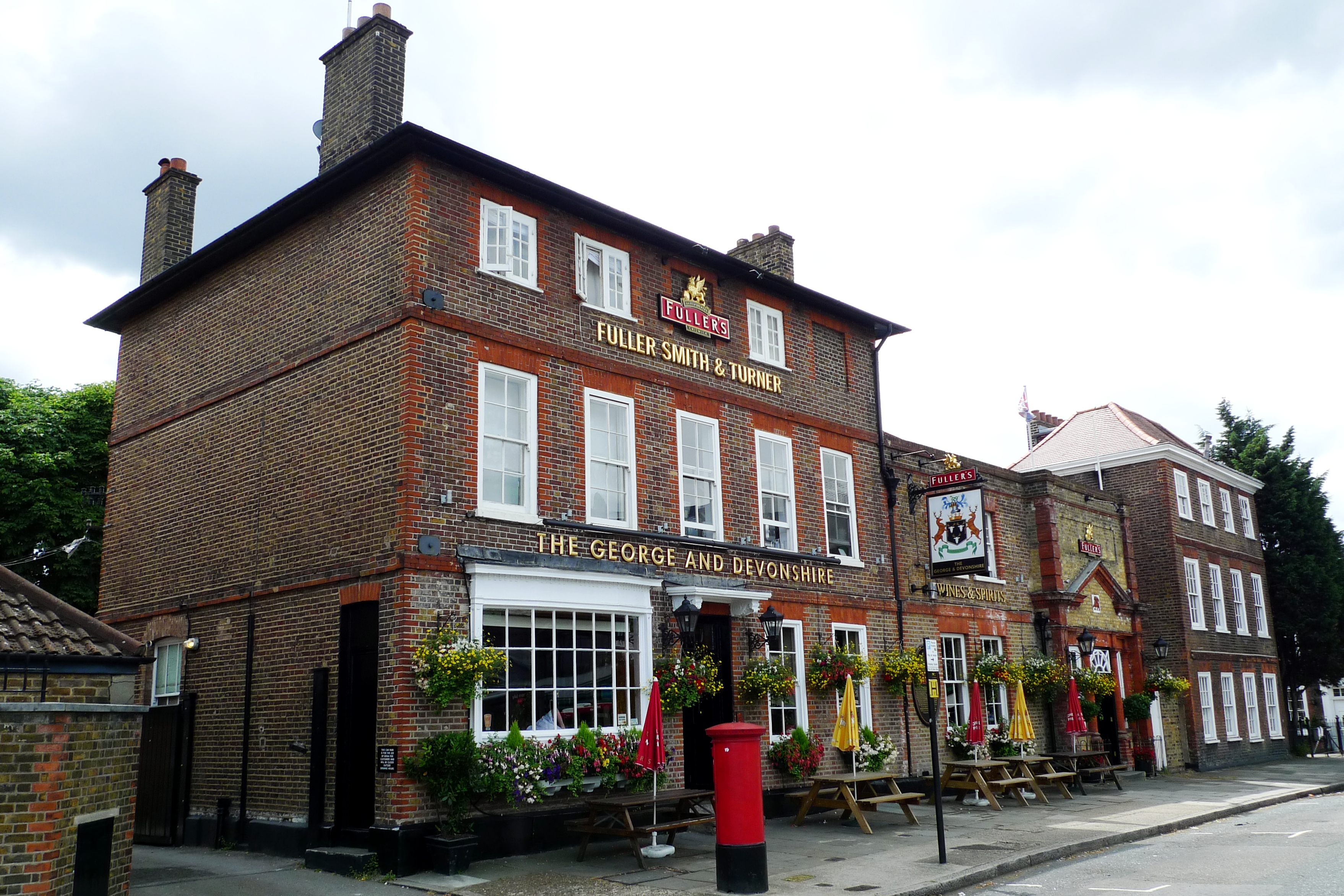 One of Fuller's flagship pubs and one of their oldest, just by the brewery. Address: 8 Burlington Lane. Former Name(s): The George and Devonshire Arms; The George (on the same site). Owner: Fuller Smith Turner (website and Fuller's website). Links: Randomness Guide to London Fancyapint Pubs Galore Beer in the Evening Dead Pubs (history)